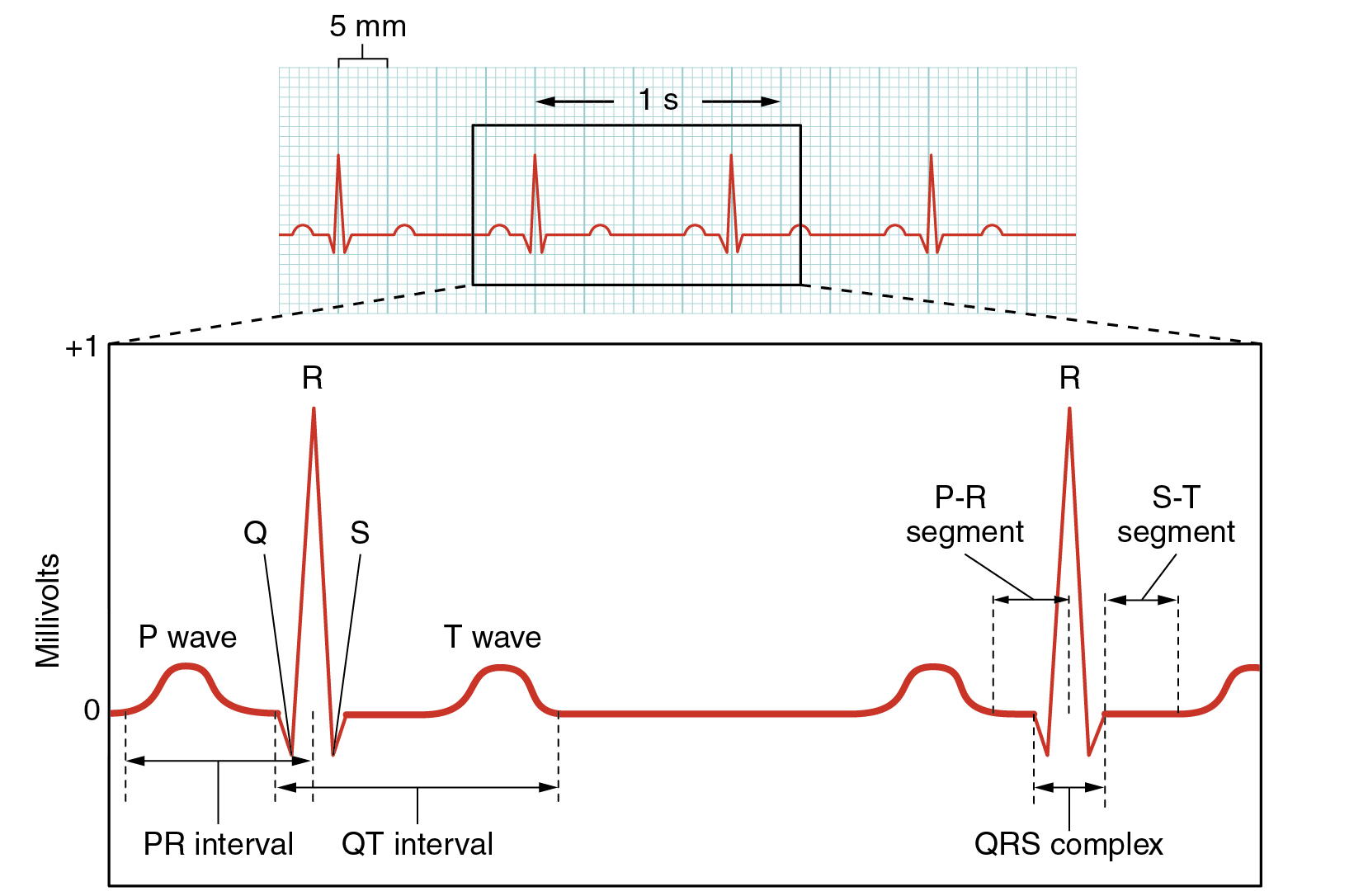 Illustration from Anatomy & Physiology, Connexions Web site. Jun 19, 2013.